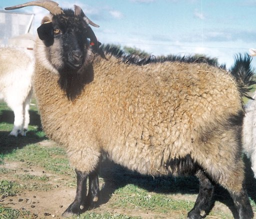 black cashmere doe.